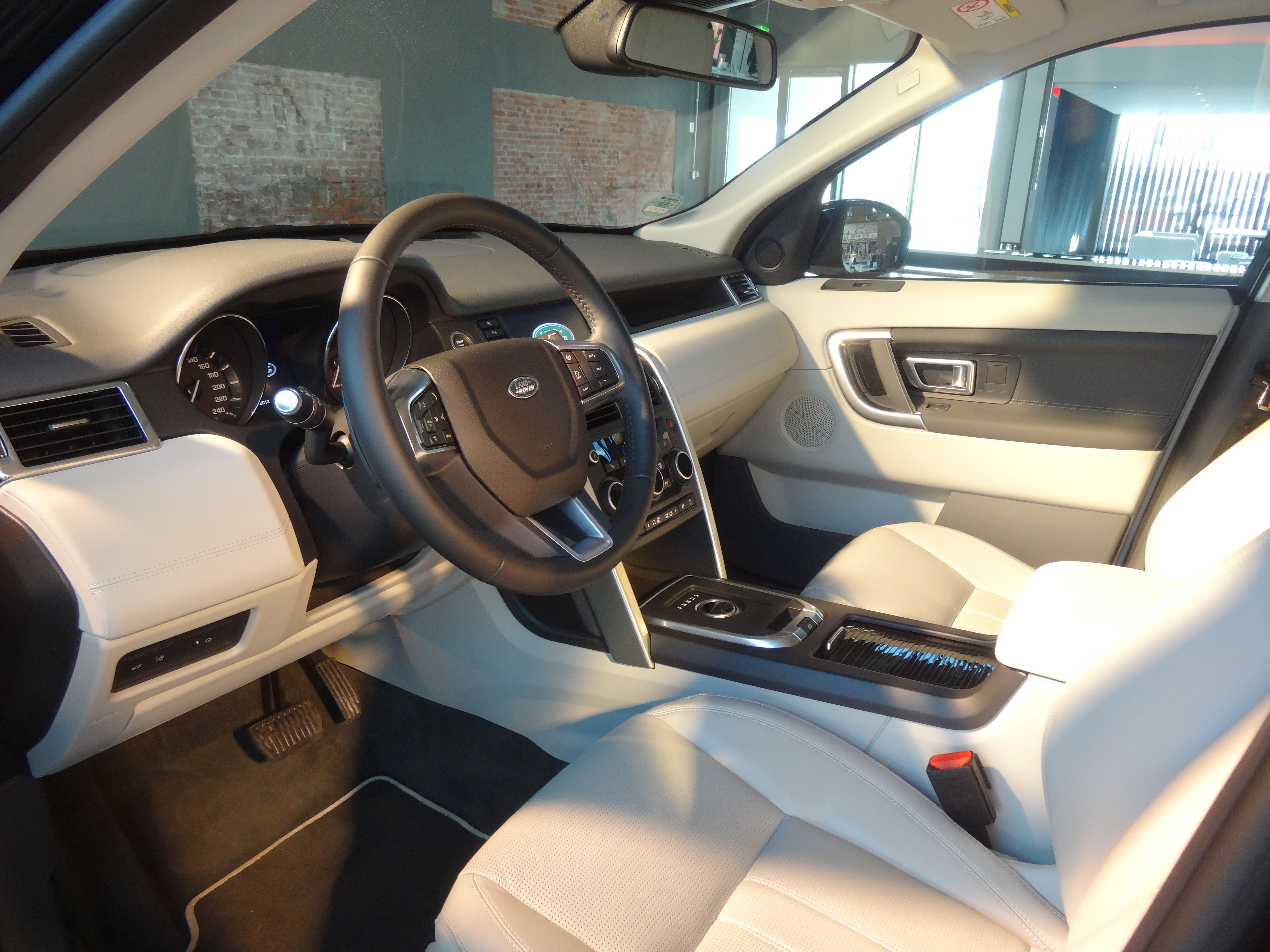 Interior of Land Rover Discovery Sport